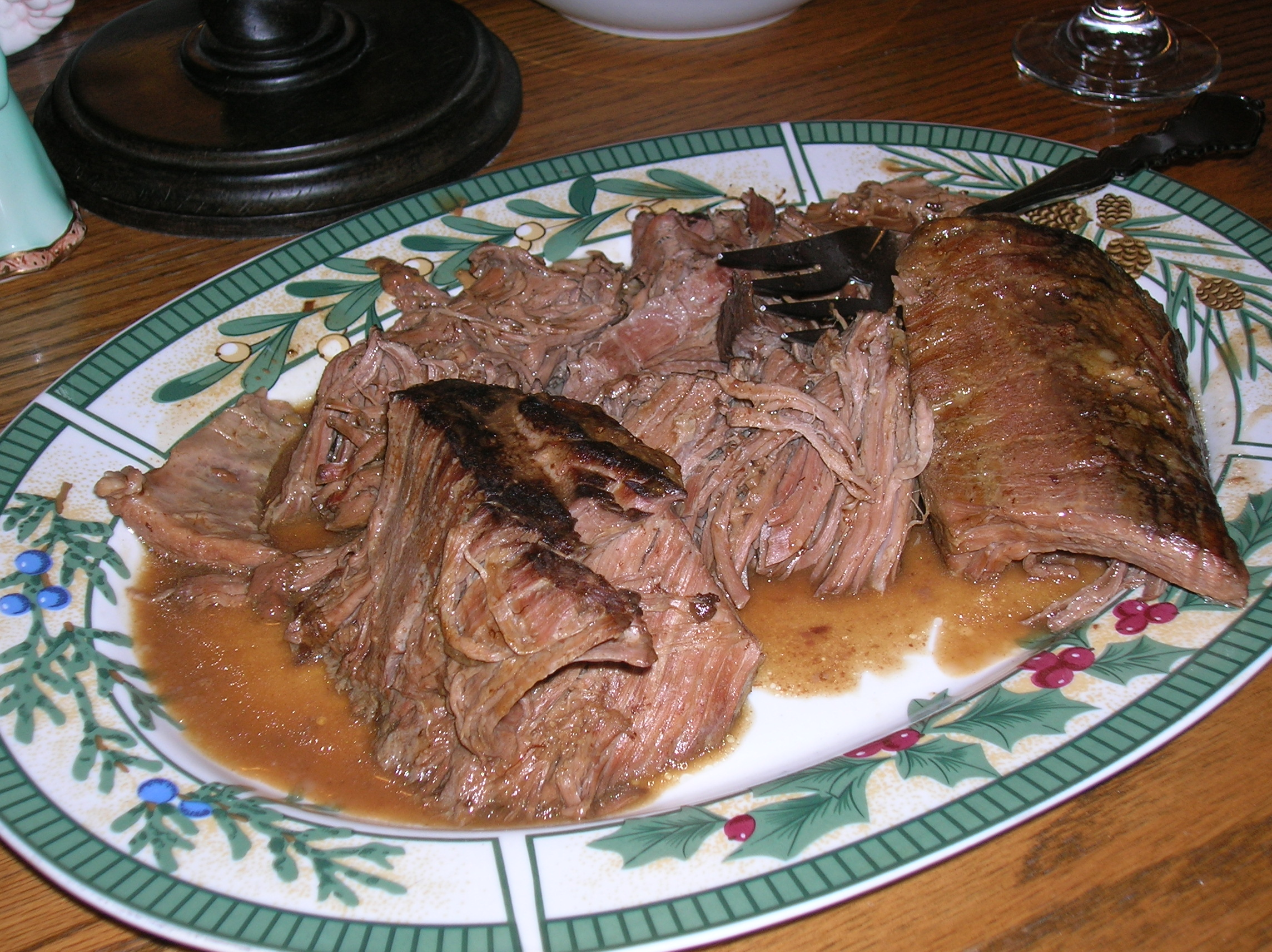 A picture I took of some old fashioned pork roast.